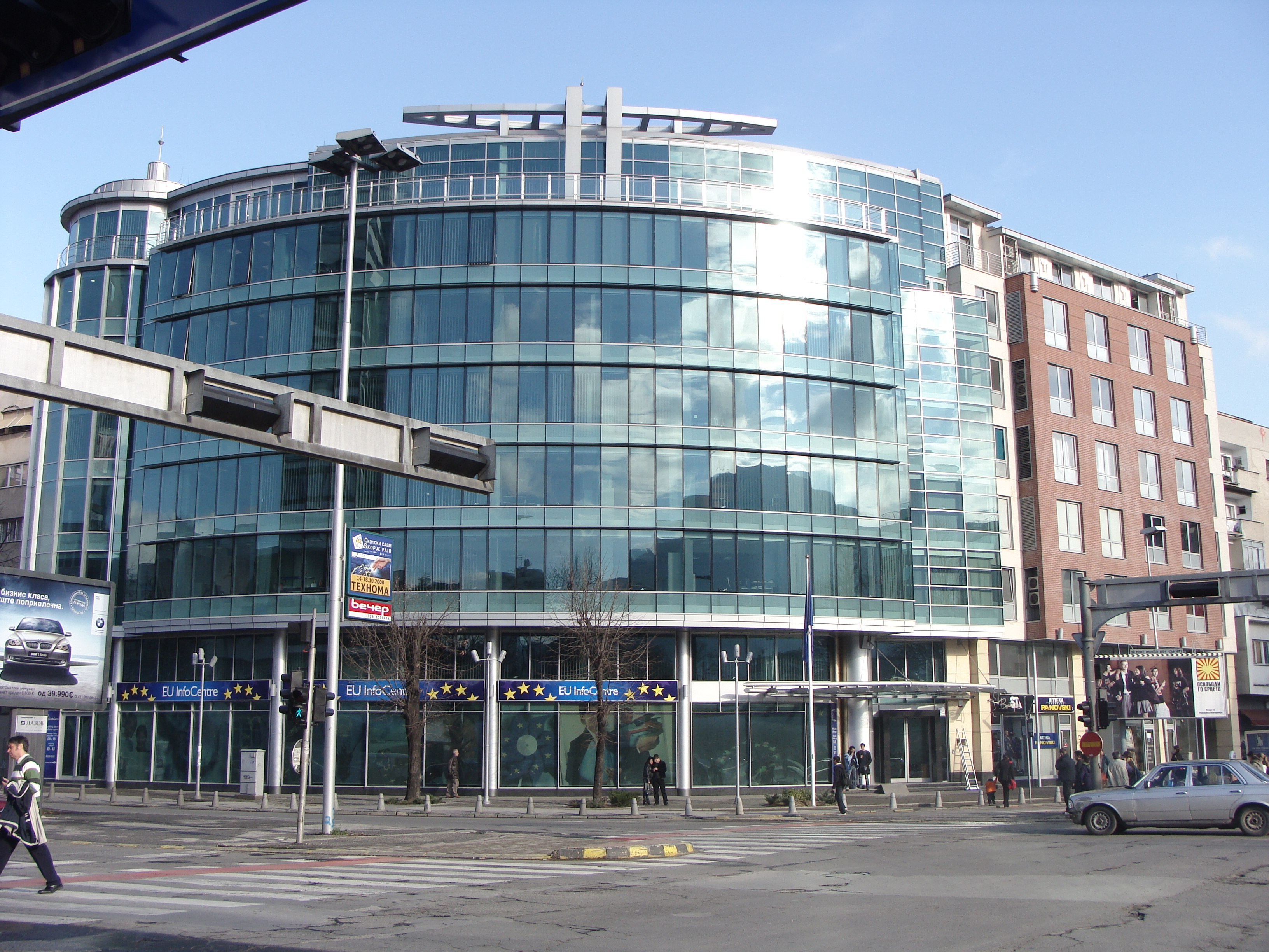 The seat of the European Union in Skopje, Republic of Macedonia.